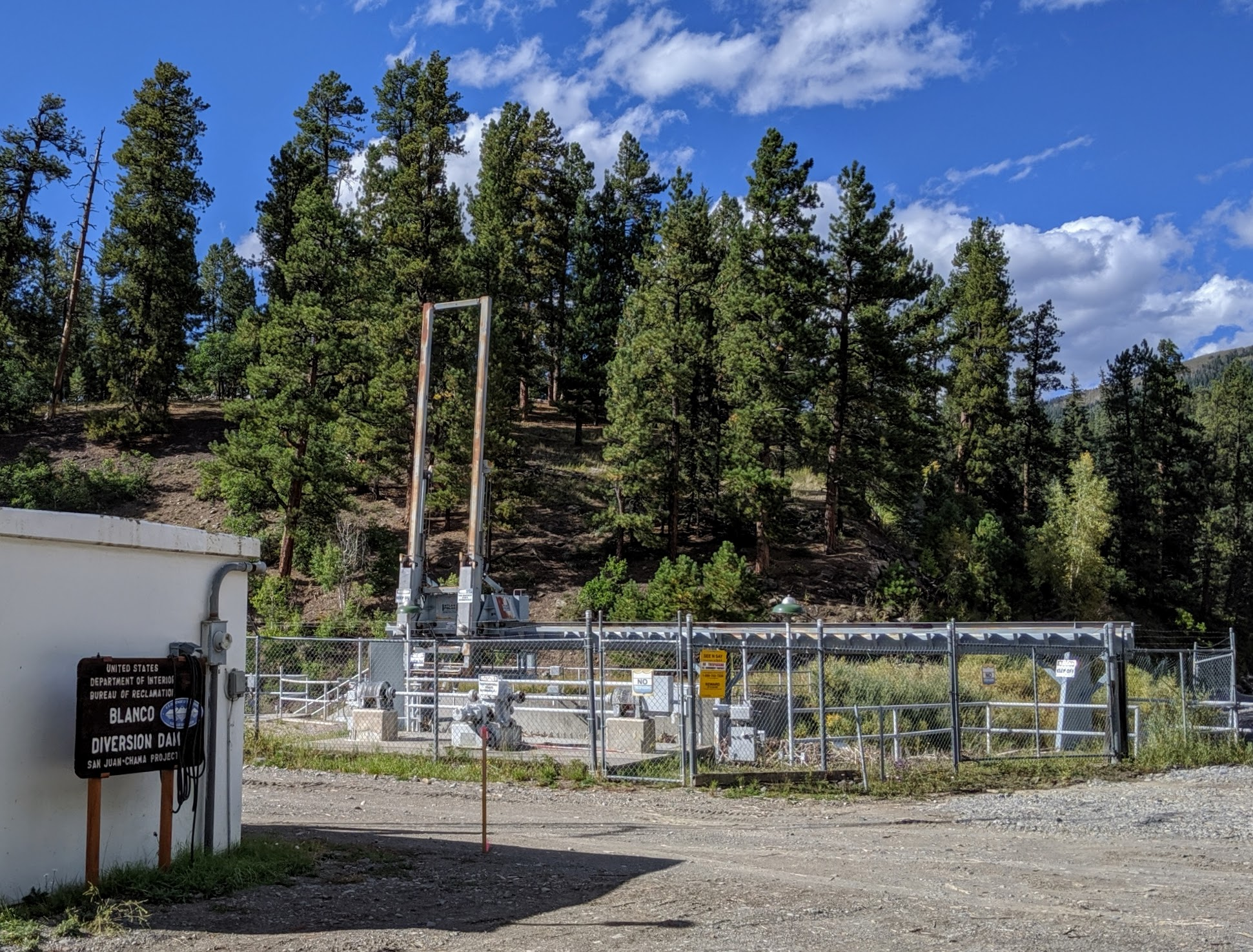 The Blanco Diversion Dam of the San Juan–Chama Project, on the Rio Blanco (Colorado), showing the sign by the US Department of the Interior, Bureau of Reclamation